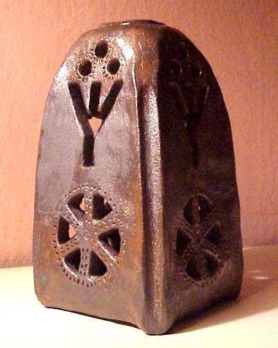 Photo of a neopagan Julleuchter with an Algiz rune motif.